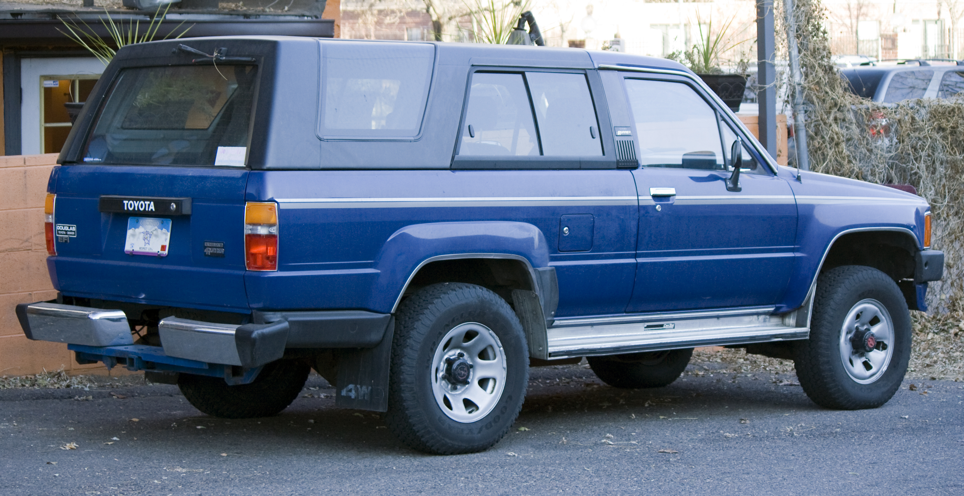 1986 Toyota 4Runner (first generation), base model equipped with the fuel injected 22R-E engine.